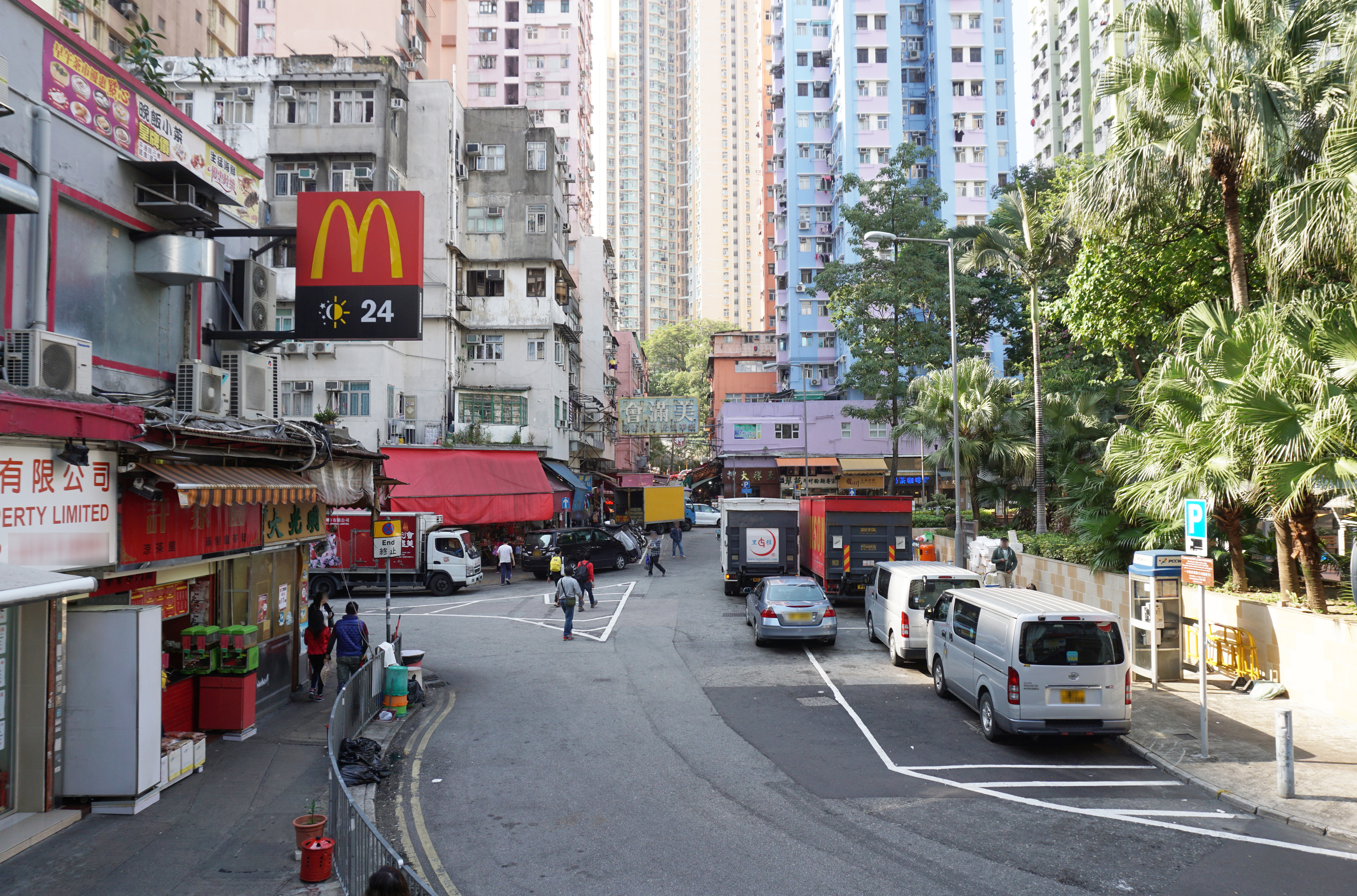 Kwong Fai Circuit in Kwai Hing, Hong Kong.